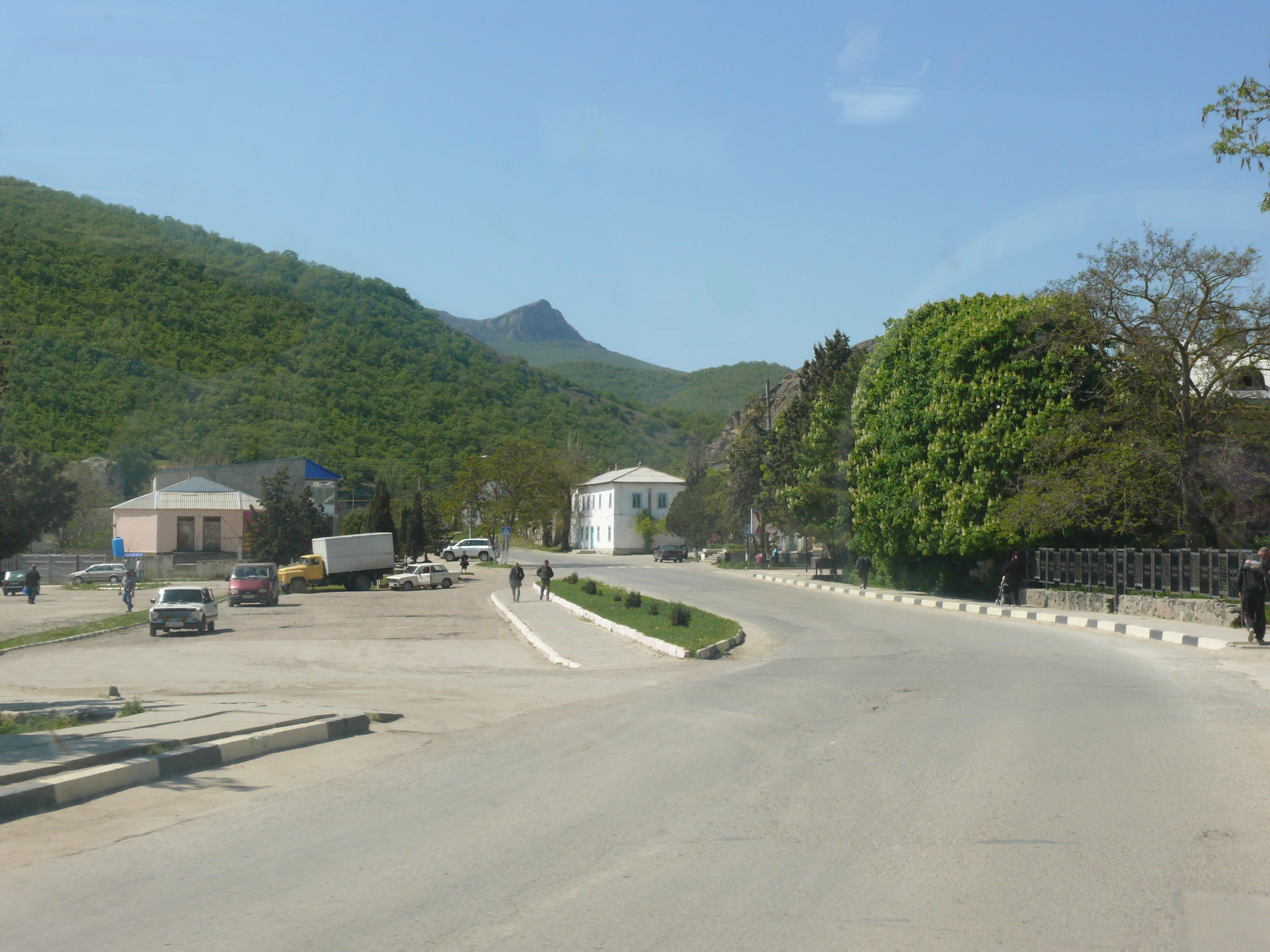 Lenin street in Shebetovka village, Crimea, Ukraine